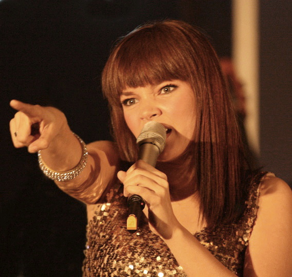 Indonesian singer Dewi Sandra performing at the Surabaya Urban Jazz Crossover in 2010.